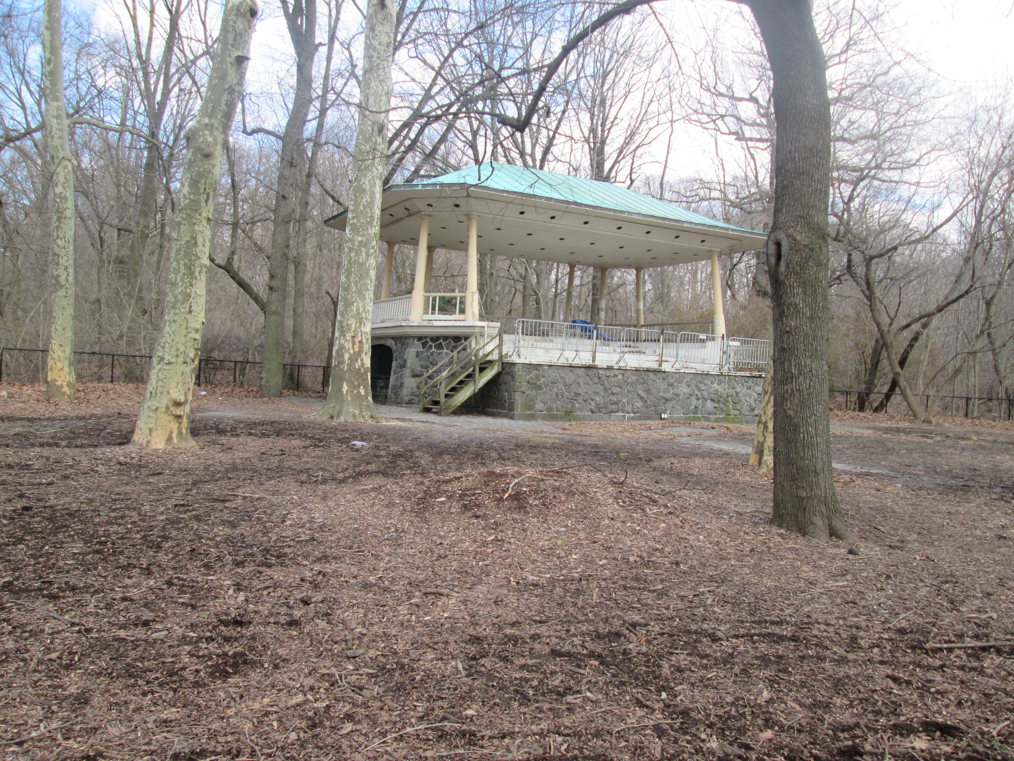 Prospect Park (Brooklyn) in Brooklyn, New York; Music Pagoda